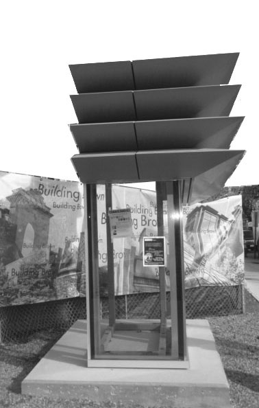 On site wall mock-up